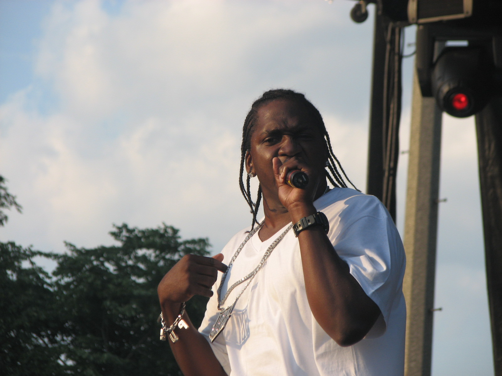 Pusha T of Clipse at the Pitchfork Music Festival.